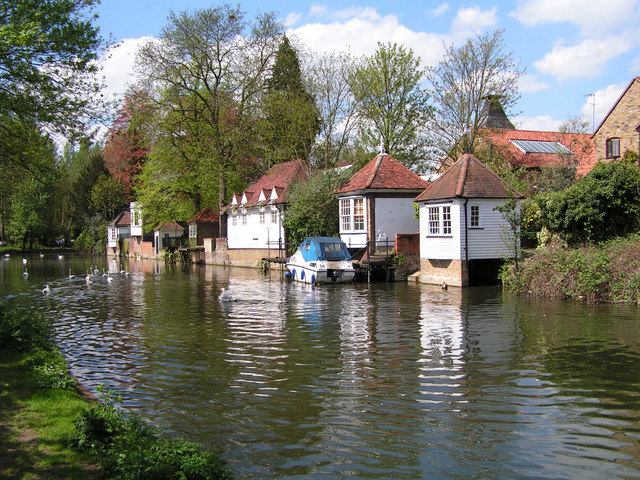 Ware Gazebos, from the south bank of Lee Navigation (of River Lea), at Ware in Hertfordshire.